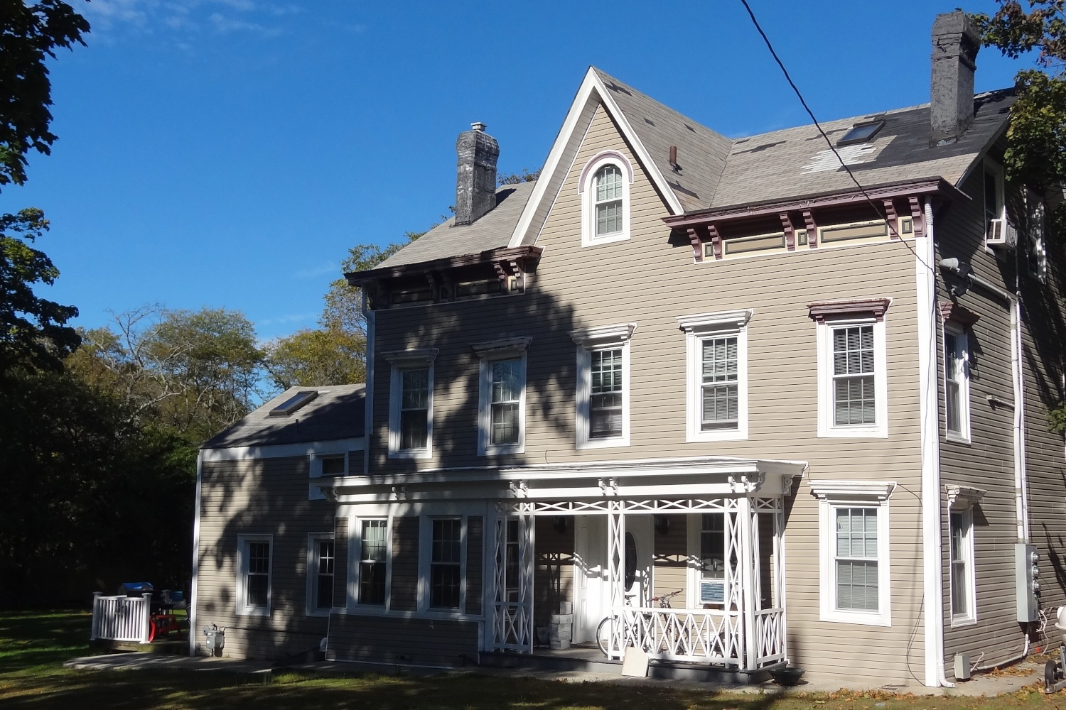 Onderdonk-Bonham House, also known as John Onderdonk House.